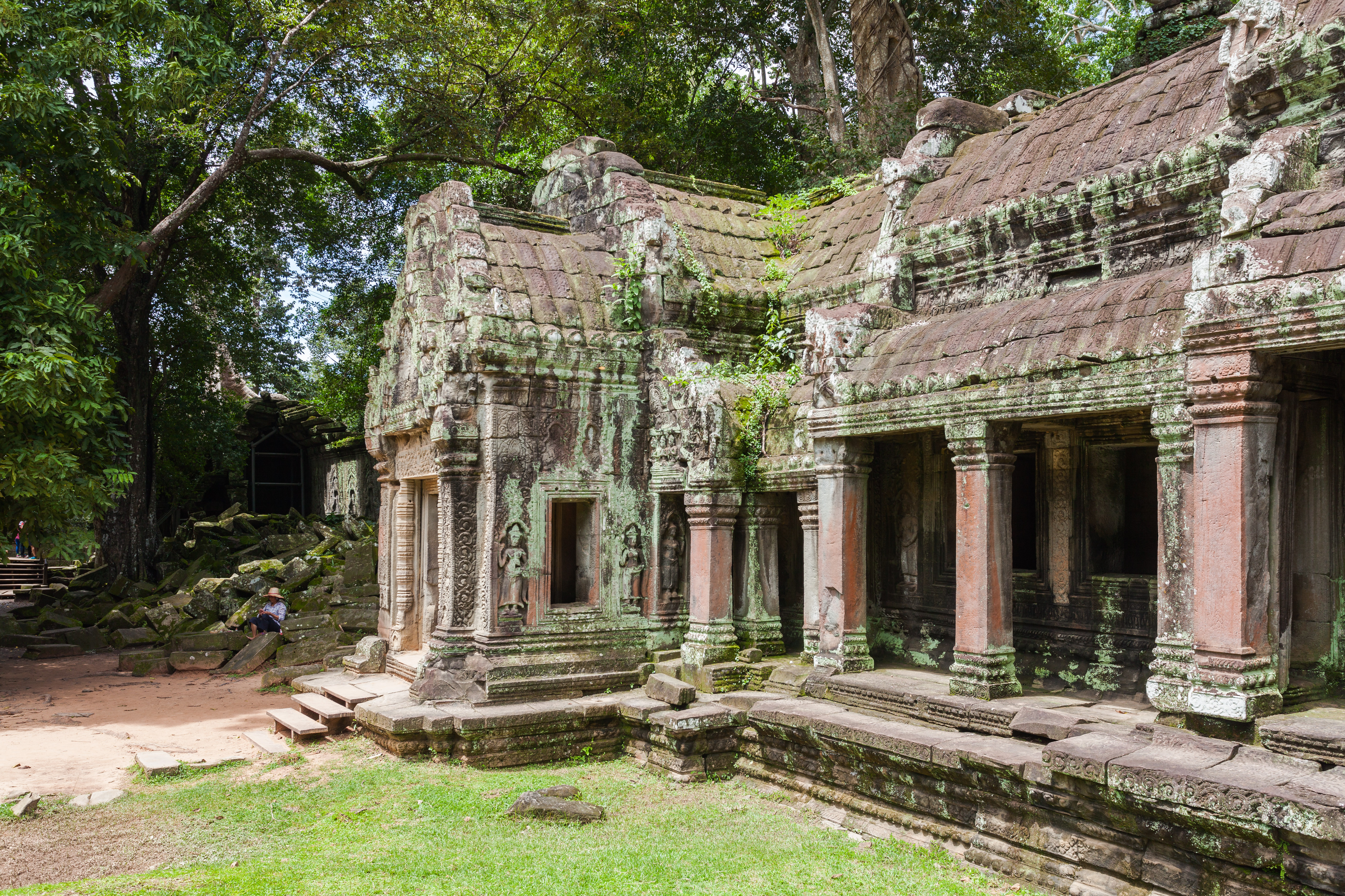 Ta Phrom, Angkor, Cambodia